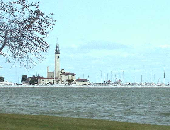 Grosse Pointe Yacht Club on Lake St. Clair in Grosse Pointe Shores (taken Sept. 28. 2004) © 2004 Matthew Trump